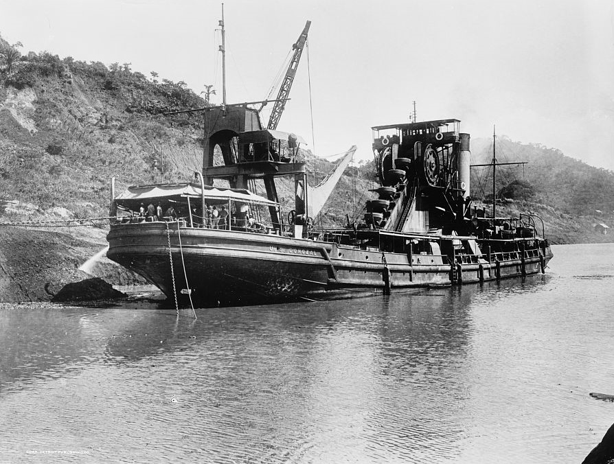 1,684 GRT ladder dredge ship US Corozal working on Cucaracha on the Panama Canal. Wm Simons & Co of Renfrew, Scotland built her in 1911 for the US Government and Panama Canal Company. The Arundel Corporation of Philadelphia, PA bought her in 1926. She was scrapped at Jacksonville, TX in 1956.